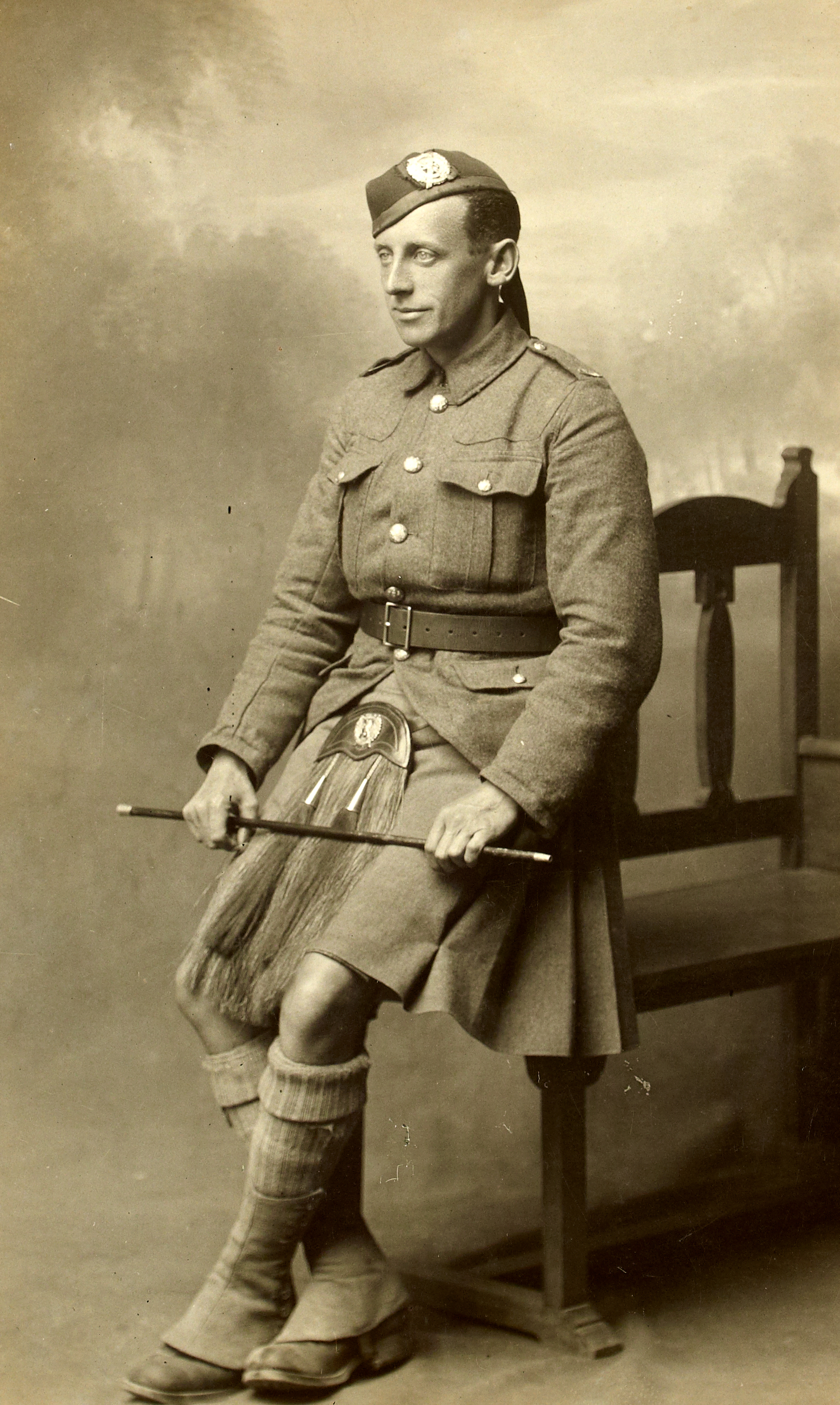 You people have worked miracles with far less, but I somehow think that this beautifully kilted soldier may remain unidentified. What think ye? In case this is too much of a toughie, also upcycling a Munsterset photo that only ever got one comment... Date: Circa 1921 NLI Ref.: BEA32